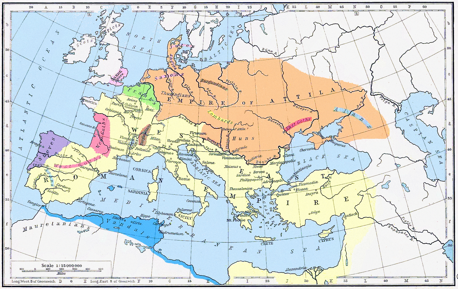 Empire of Attila and the Roman Empire around 450 AD. Settlement area of Germanic tribes within the Imperium Roman are marked, controlled areas are in color.